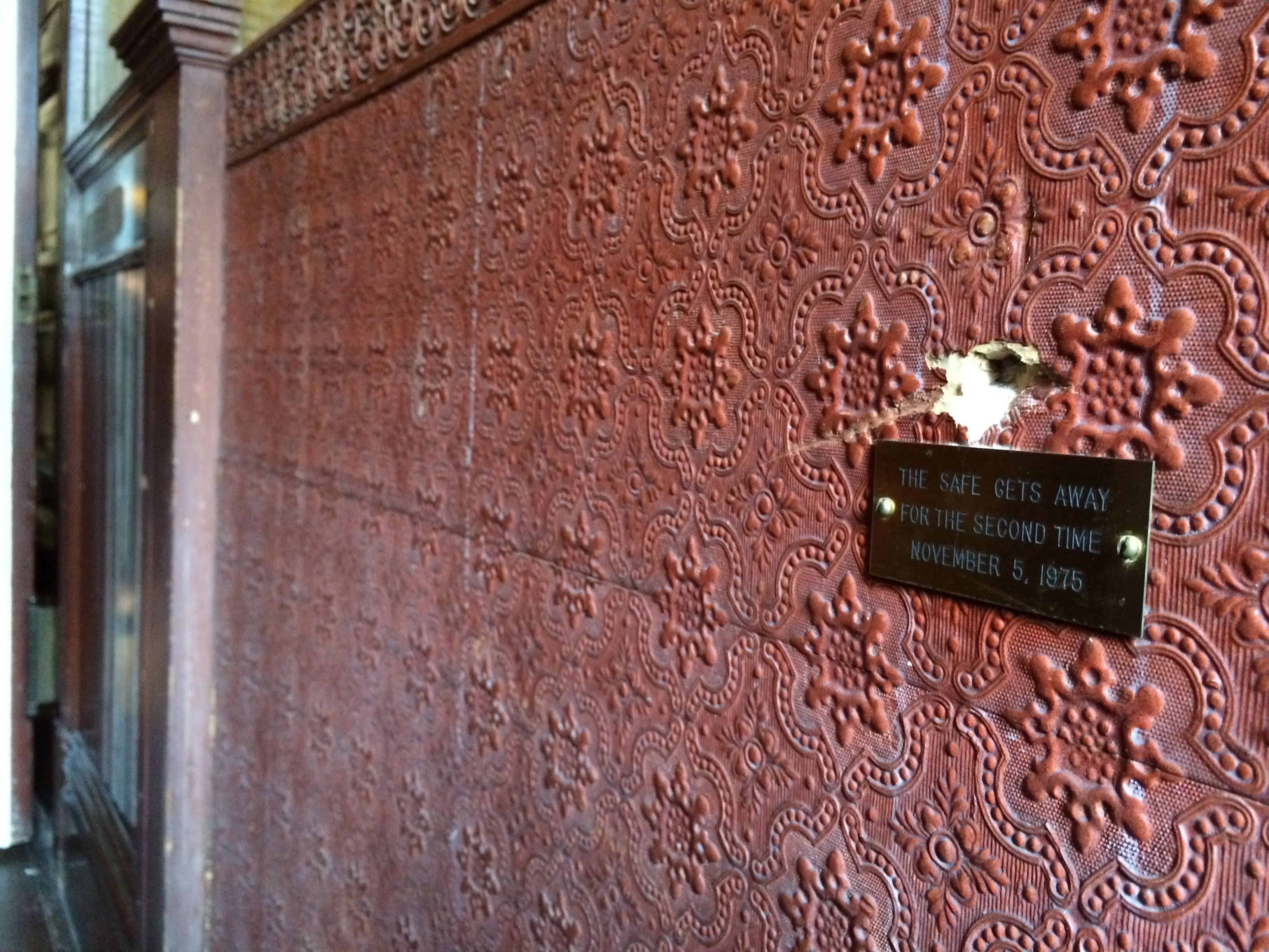 At the David Ireland house museum in the Mission District, San Francisco.